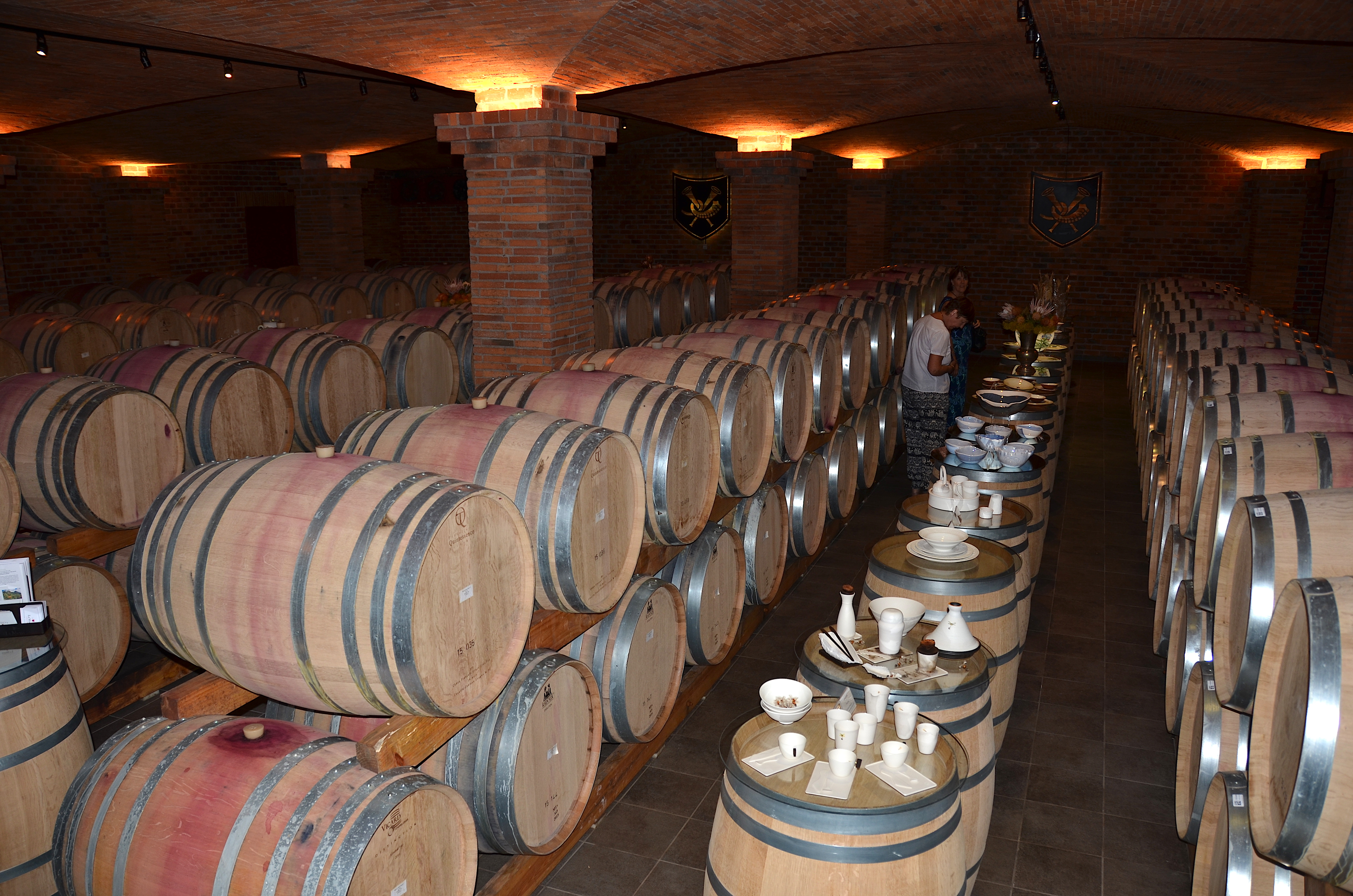 La Motte Wine Cellar, Franschhoek (2015)